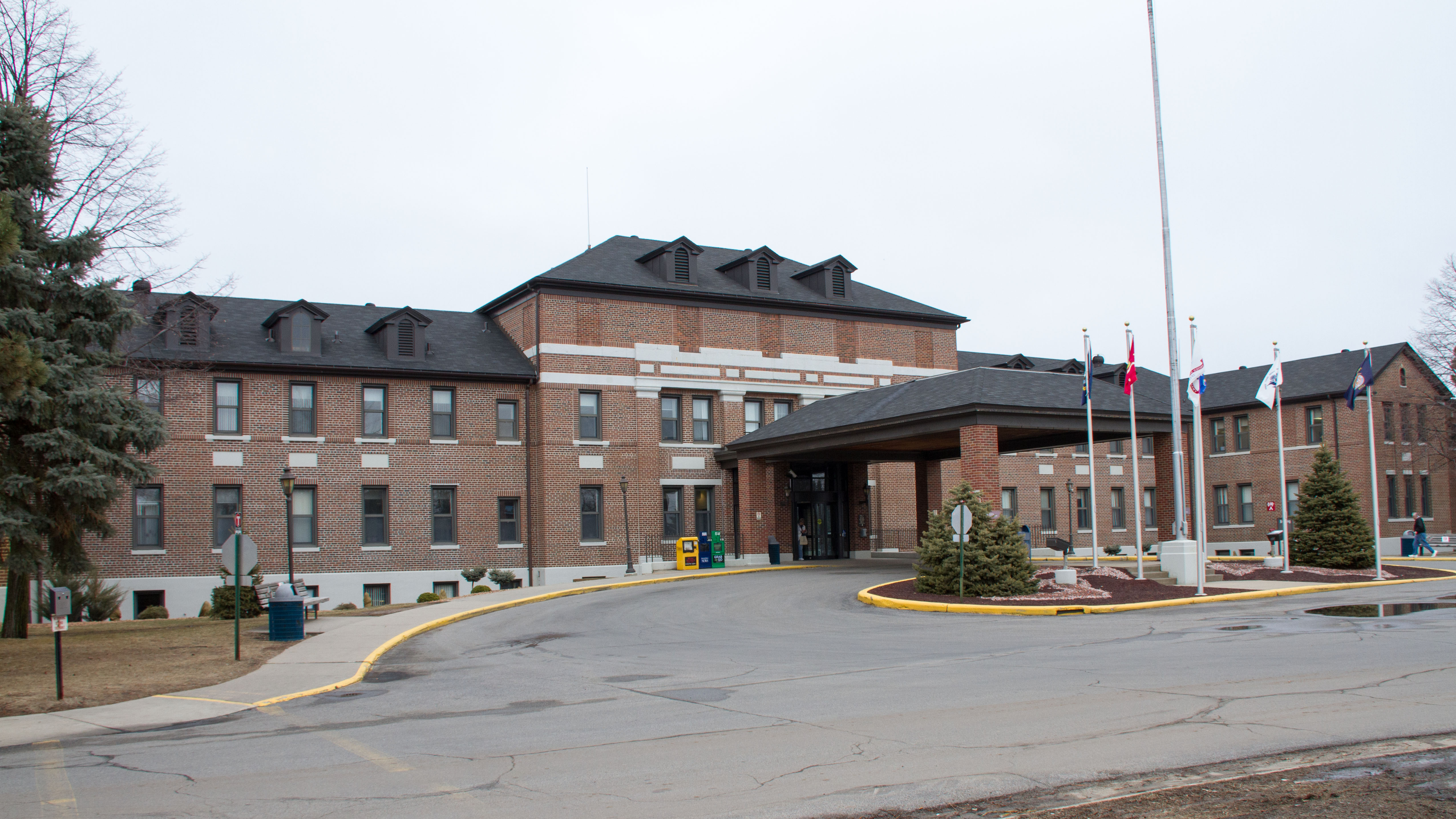 Building 1, St. Cloud Veterans Administration Hospital Historic District (VA Medical Center), St. Cloud, Minnesota, USA.